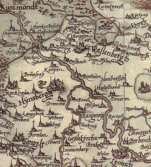 Detail from an Atlas (Kalkar, 1573) of the german cartographer Christian Sgrothen (1525-1604). This part of the map shows the lower river Rur